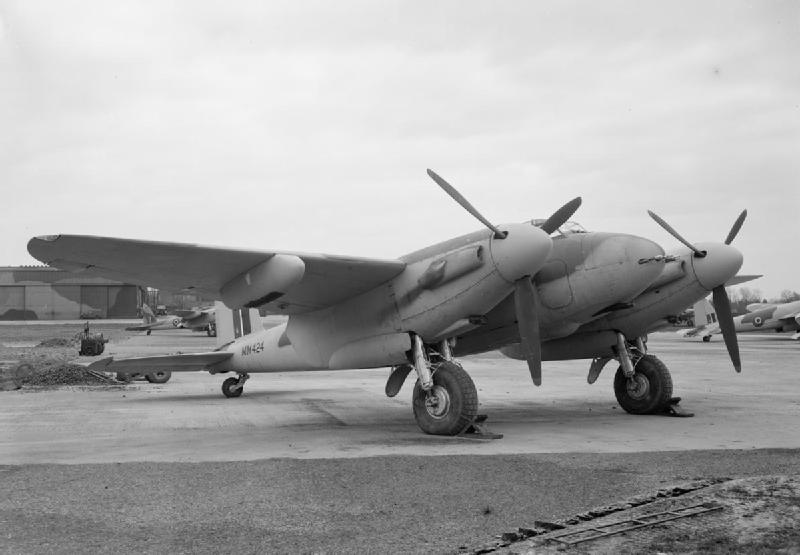 IWM text : The "Mosquito XVIII, the so-called 'Tsetse', was armed with a 6pdr (57mm) Molins gun for use against surfaced U-boats. This aircraft, MM424, seen in February 1944, was one of only 17 production versions built. The barrel of the Molins, which was loaded automatically, can be seen protruding from the underside of the nose.